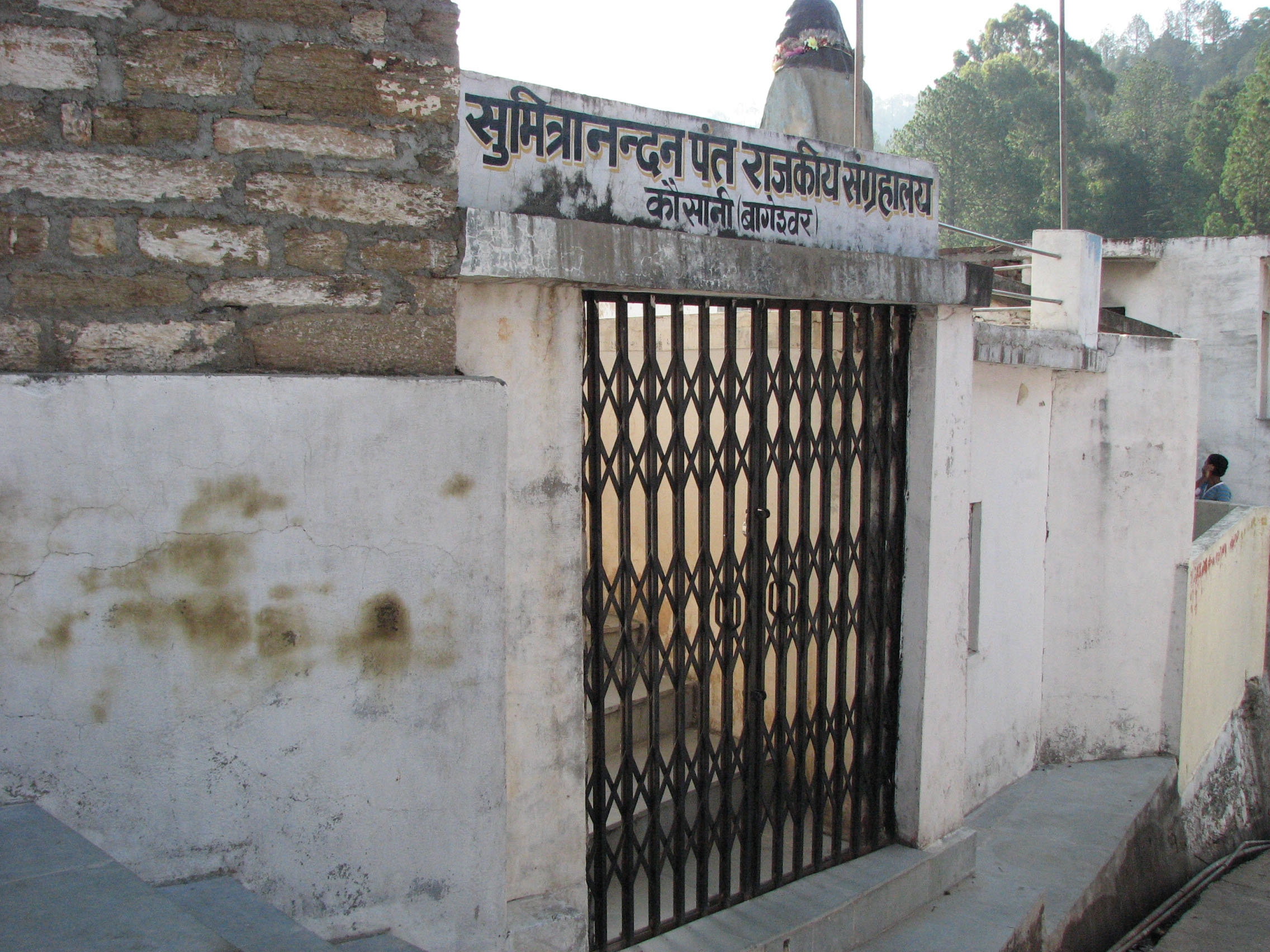 sumitranandan pant,s birth place at kausani is now a museum